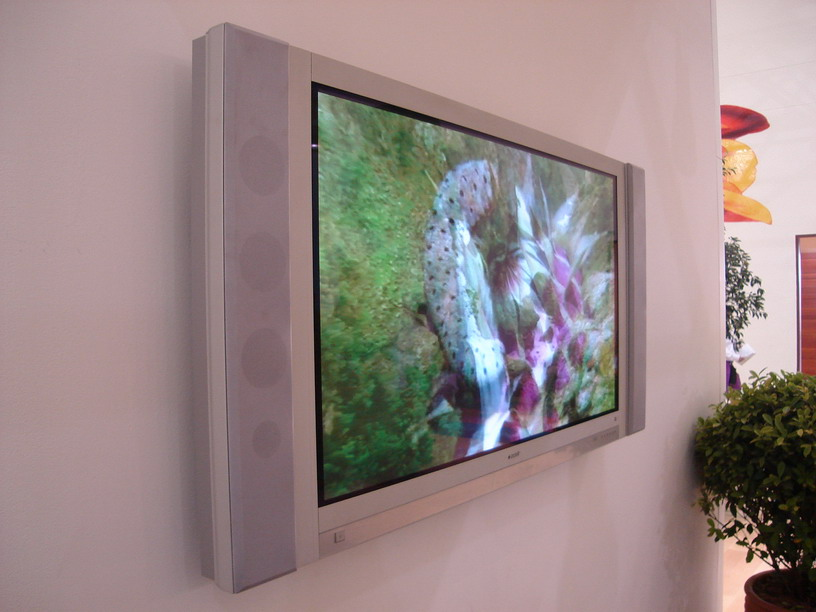 Arçelik TV, (Arçelik is Turkish TV maker), found in Royal Flora Expo 2006 Notes: Arçelik is not marketed officially in Thailand. This TV is seem to be imported by Turkey to use in Royal Flora Expo 2006.